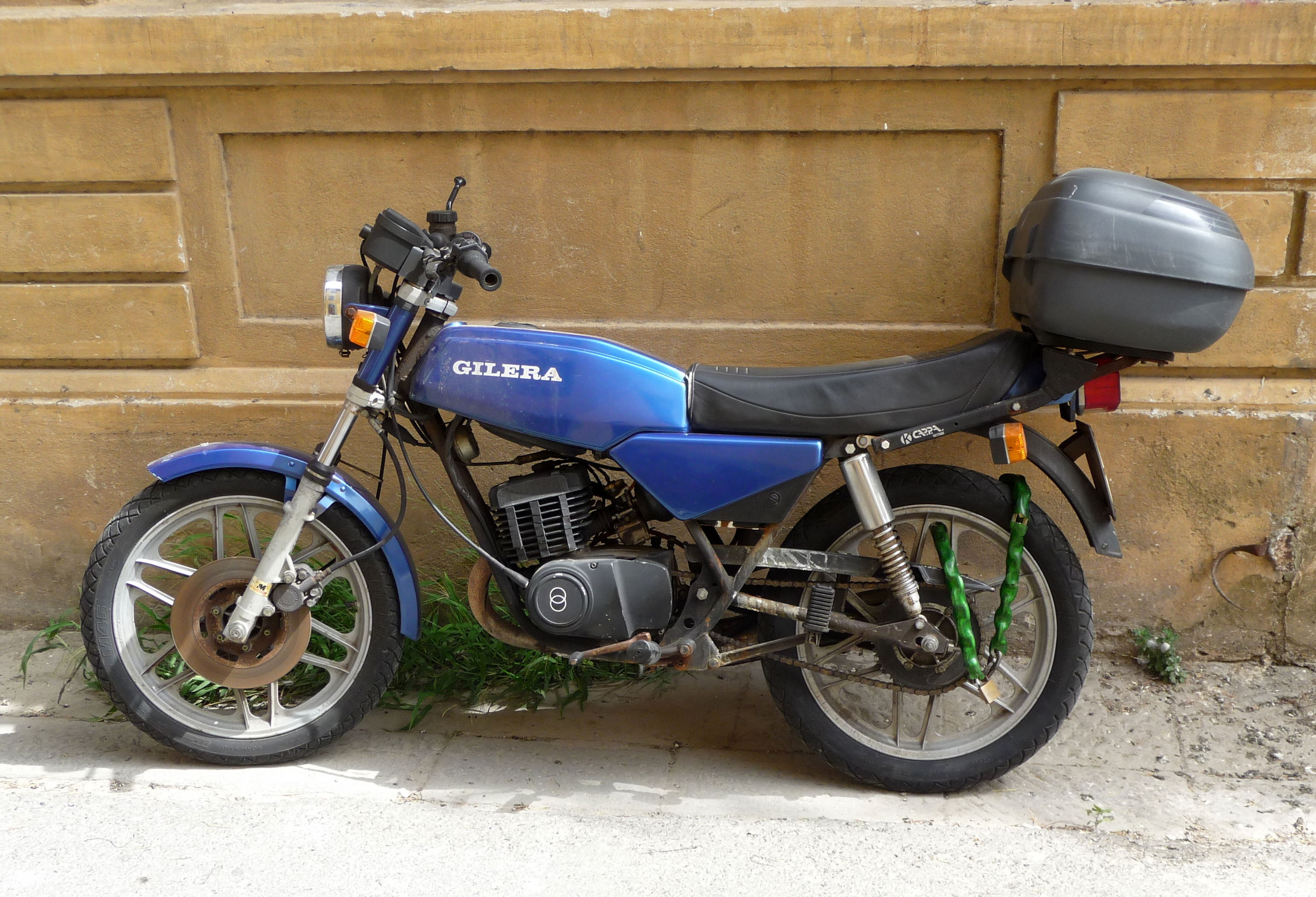 Gilera motorcycle